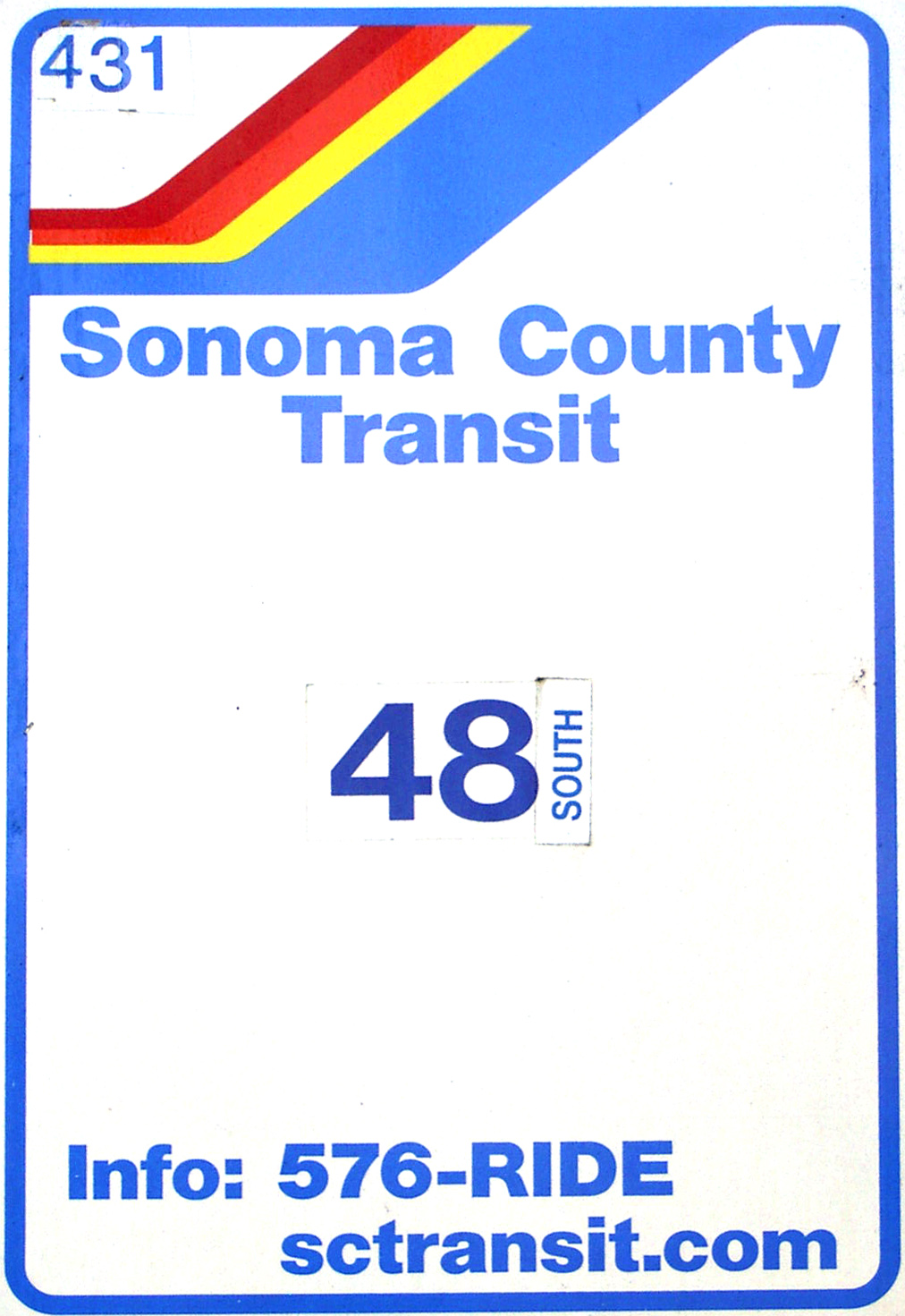 Sonoma County Transit sign. Taken on Old Redwood Highway just south of Valparaiso Avenue by Stephen Gold on November 29, 2007.